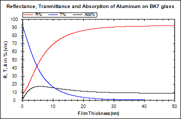 Reflectance, Transmittance and Absorption of a thin film of aluminum on BK7 glass. R, T and A are averaged 400-700nm.